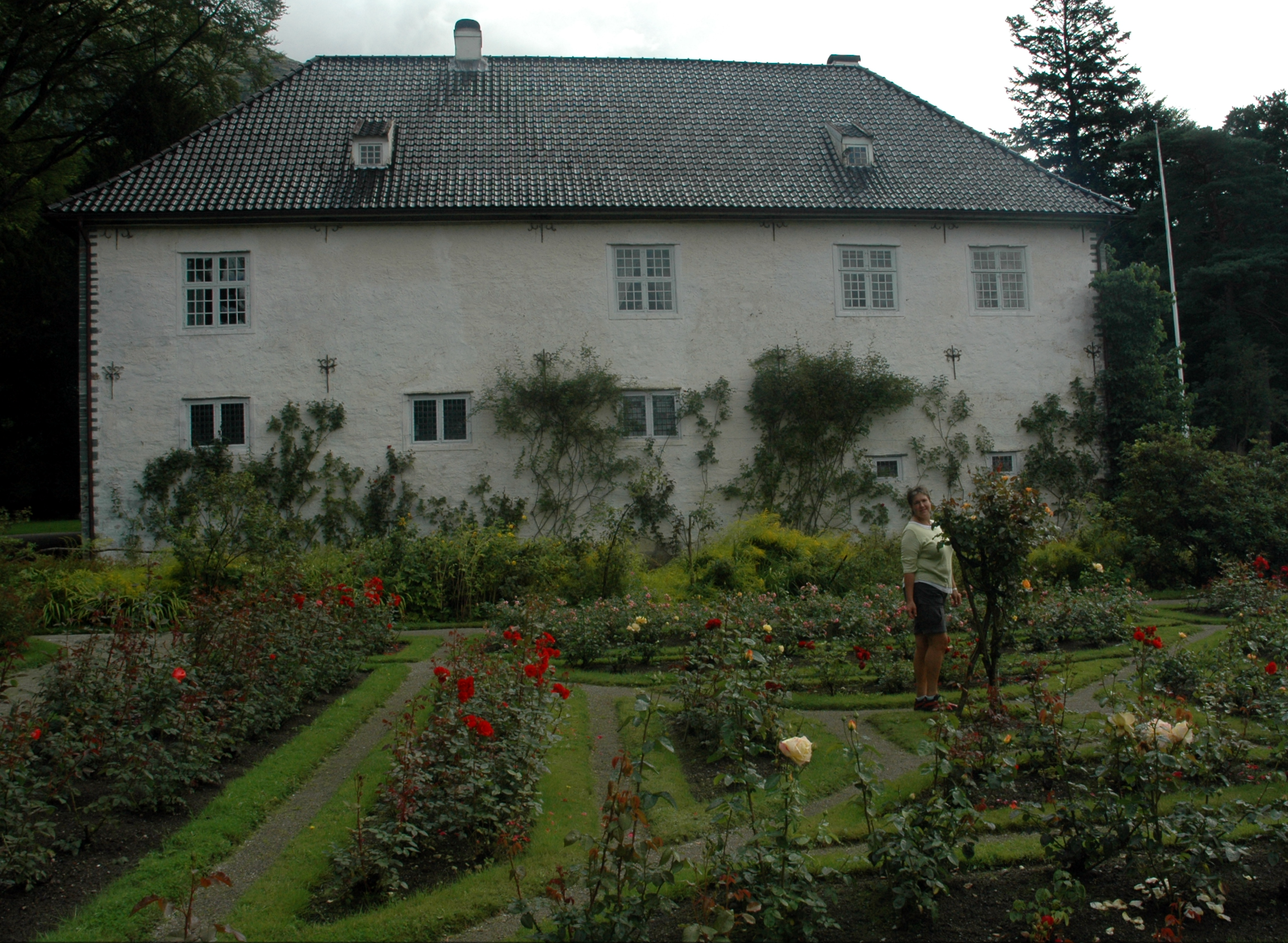 The main building of Rosendal, Norway's only Barony. Dated from 1665. Photo taken by Kjetil Lenes.